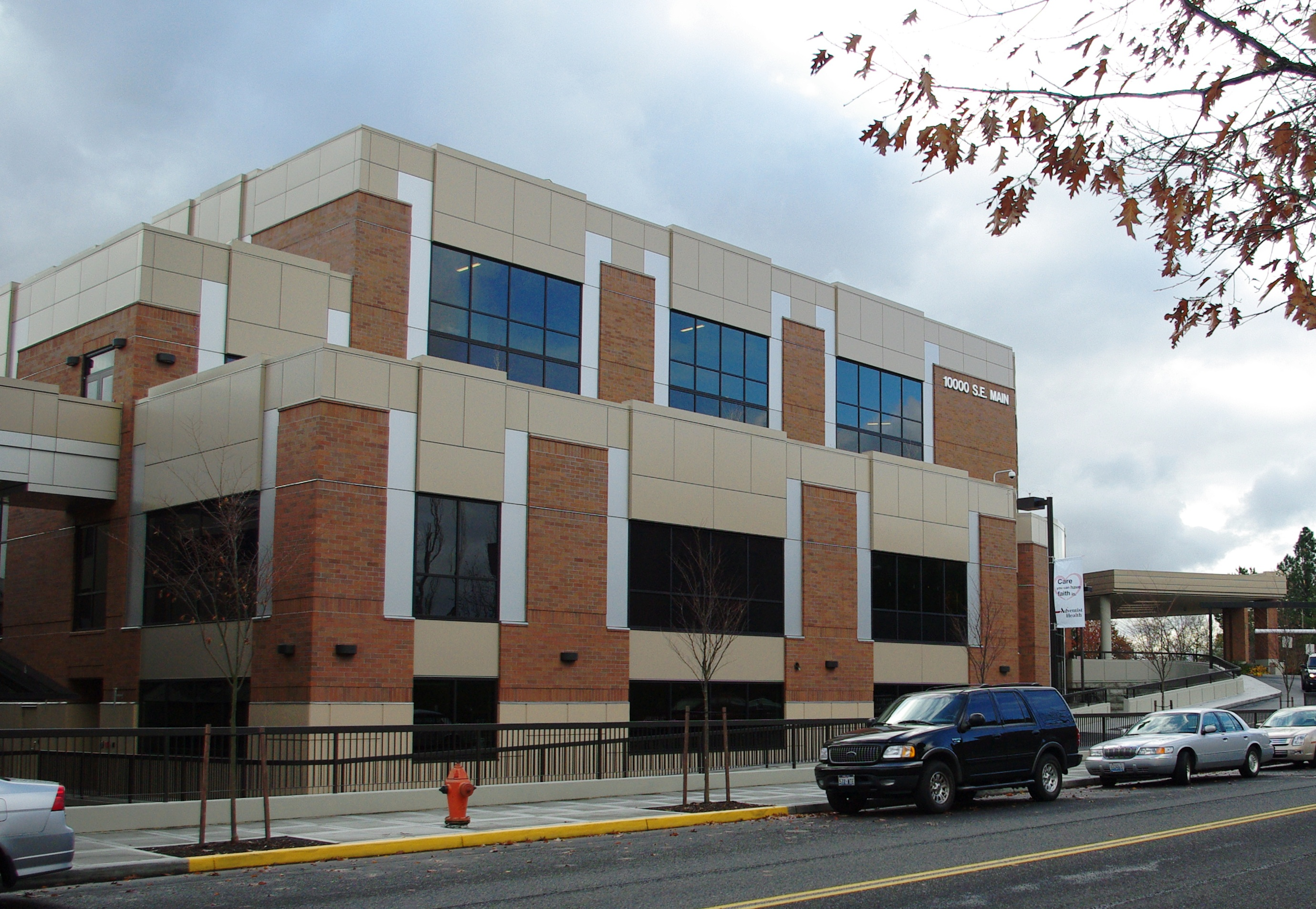 Adventist Medical Center in Portland, Oregon.